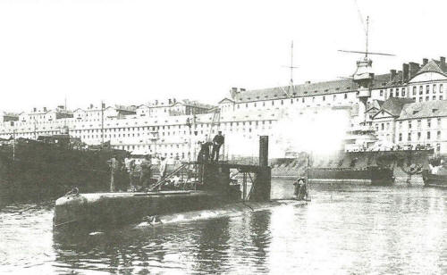 French sumbarine Z